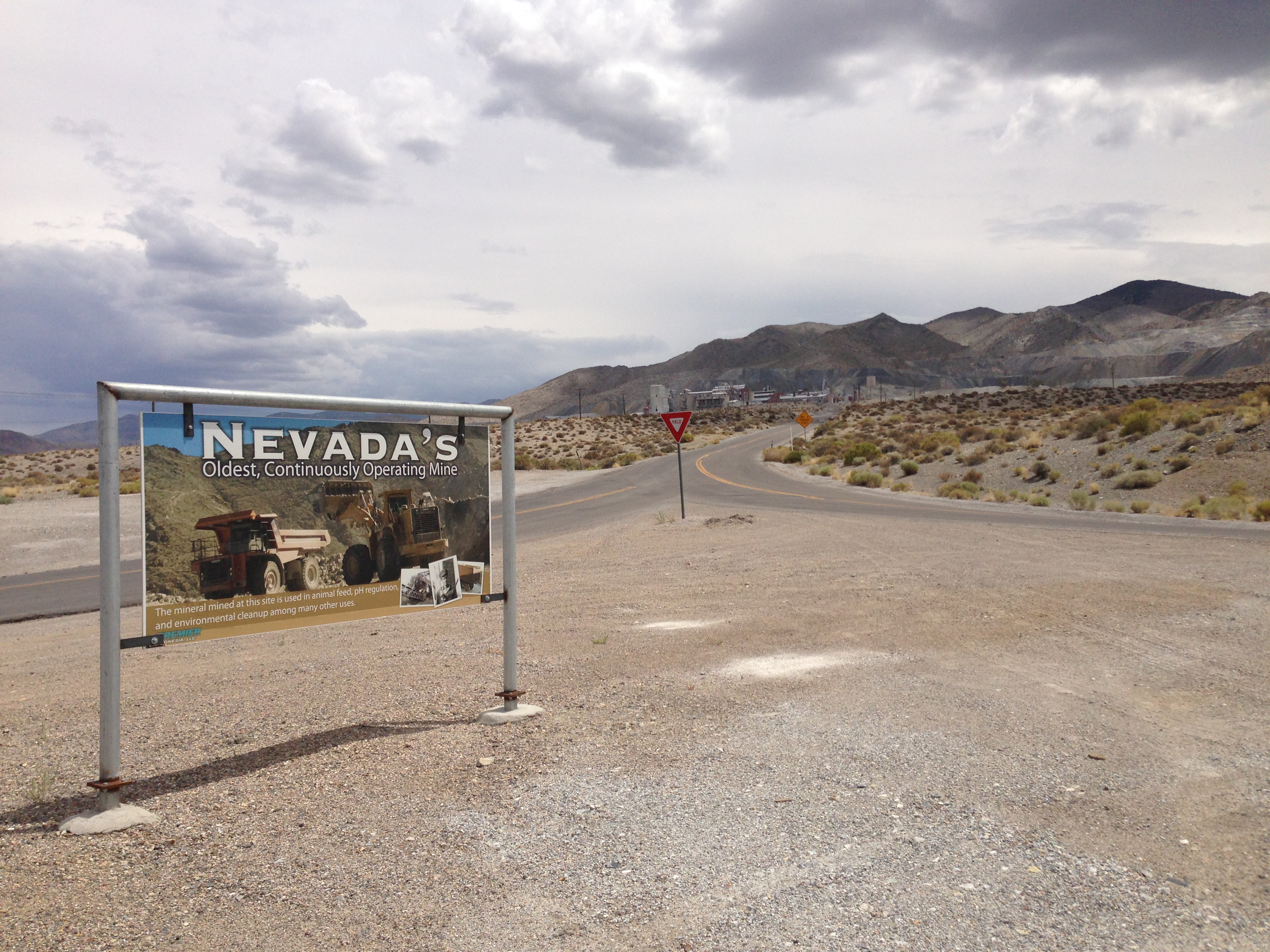 Entrance to the Premier Magnesium Mine in Gabbs, Nevada